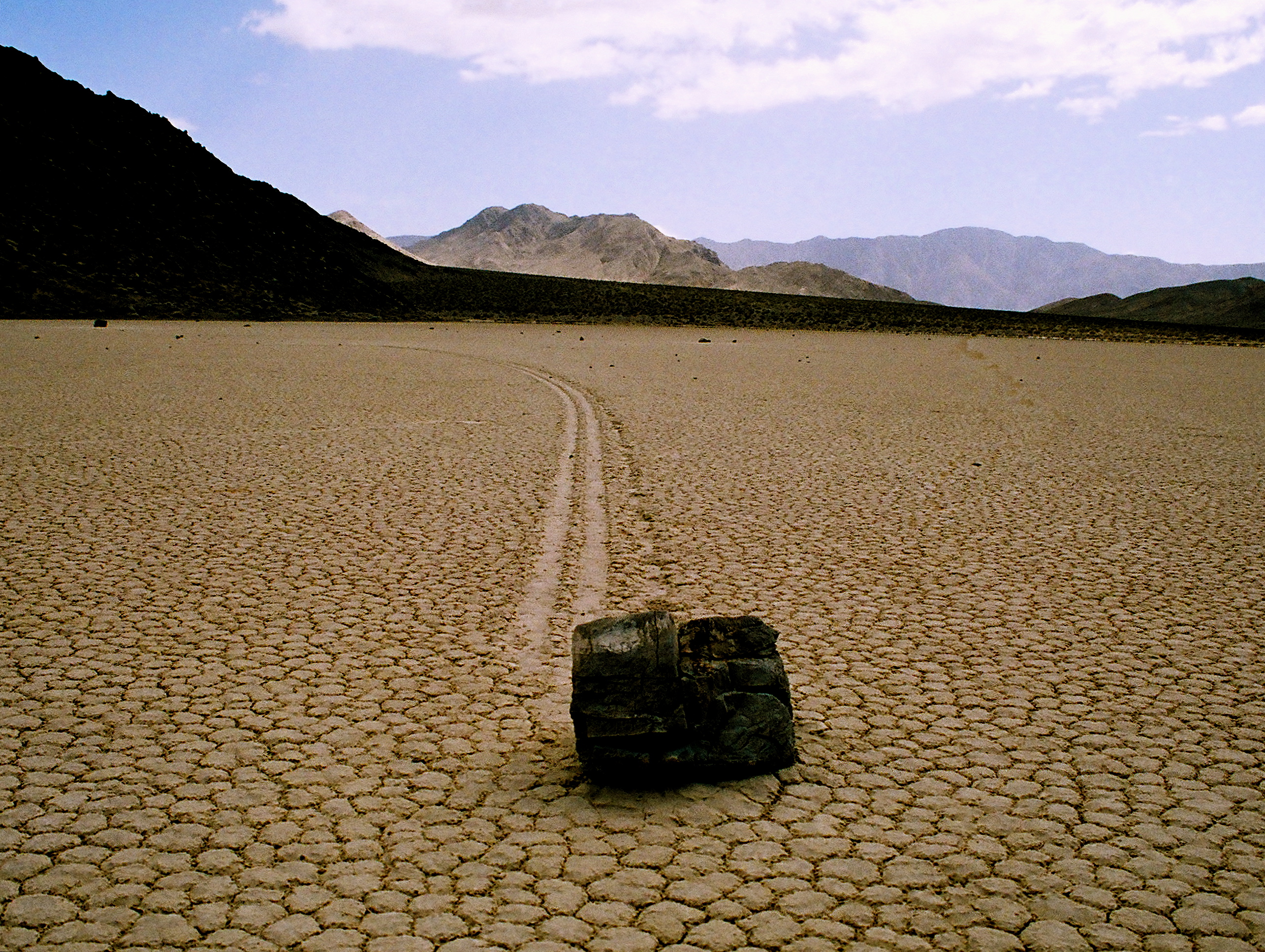 The Racetrack in Death Valley, Ca